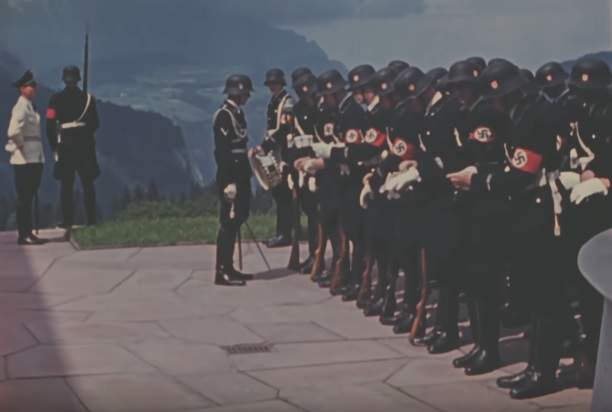 Men of the Leibstandarte SS Adolf Hitler prepare for the reception of the Italian foreign minister Galeazzo Ciano. Reference: Knopp, Guido (2003). Hitler’s Women. Translated by Angus McGeoch. New York: Routledge 2003. p. 28. ISBN 0-415-94730-8.